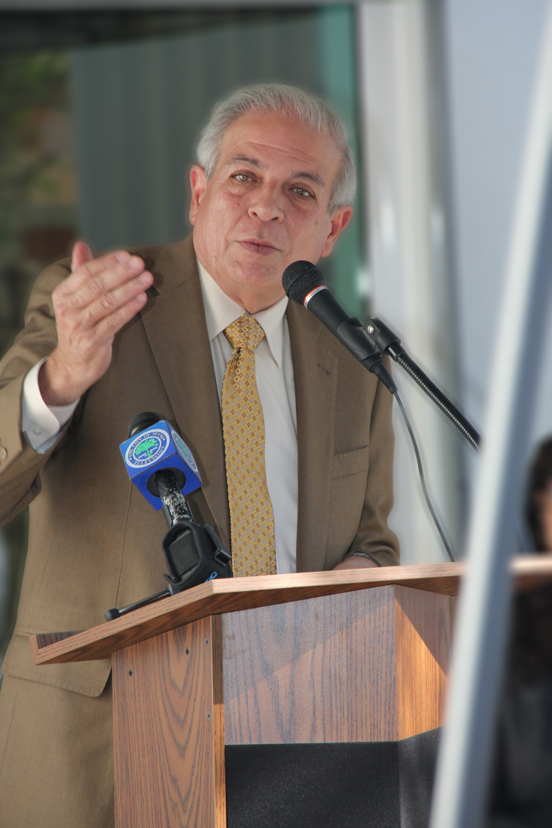 Miami Mayor Tomás Regalado speaks at Parkview Gardens Ribbon Cutting ceremony.